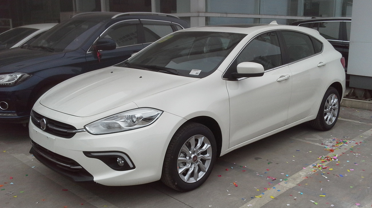 Fiat Ottimo photographed in Liuzhou, Guangxi province, China.